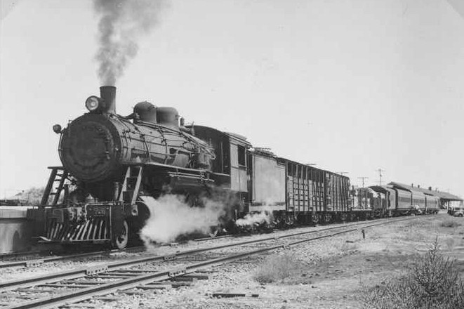 Commonwealth Railways CN class locomotive, no. CN76, at Port Pirie, South Australia, with a mixed train for Port Augusta, South Australia. The locomotive was built in Canada in 1908 for the Canadian Northern Railway, and was later owned by the Canadian National Railways. During World War II, it was exported from Canada to Australia. It entered service with the Commonwealth Railways in February 1943 and was officially withdrawn in April 1952.This is one of a number of images in the collection of the State Library of South Australia depicting Commonwealth Railways locomotives said to have been taken in around 1951.Some of the information provided here about the image is obtained from Fluck, Ronald E; Marshall, Barry; Wilson, John (1996). Locomotives and Railcars of the Commonwealth Railways. Welland, SA: Gresley Publishing, pp. 42-44. ISBN 0959969039.